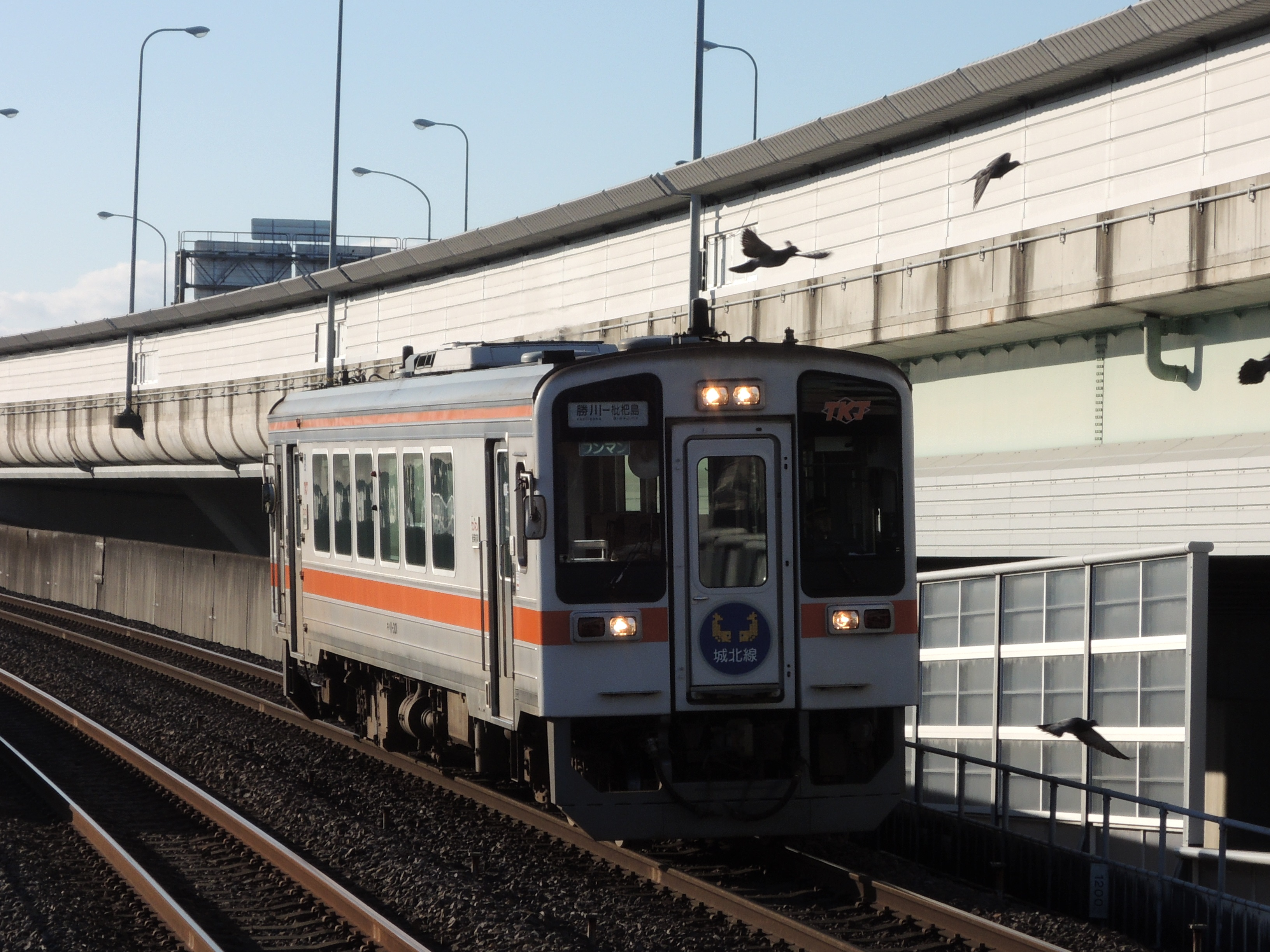 Tokai Transport Service KiHa 11-300 series DMU car KiHa 11-301